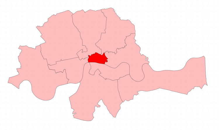 A map of City of London constituency within the Metropolitan Board of Works area, as it existed from 1868 to 1885.